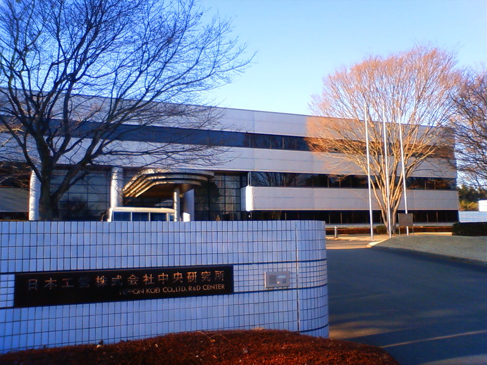 This is the Nippon Koei's research center in Tsukuba.